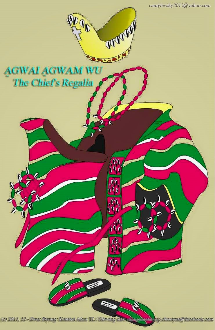 A Proposed Replacement for the regalia of His Royal Highness, Ågwam Åniet Lak Lat ba, Åniet Bå Byiå Åman Ålyiå Chyo Åni, ÅGWATYAP wu, the King (HIGH CHIEF) of the Åtyap Nation.